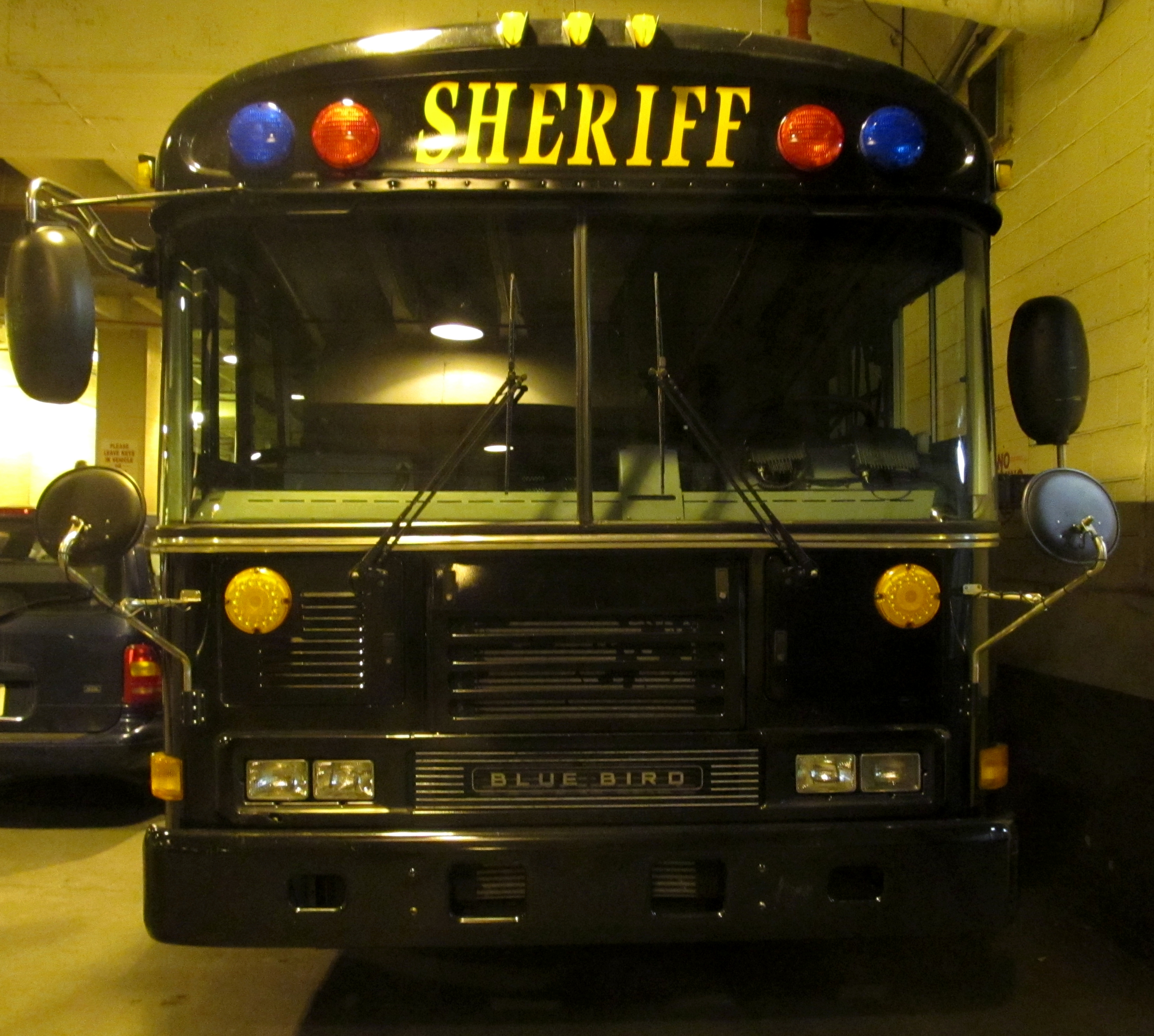 The Cuyahoga County Sheriff's Offices' prisoner transport bus.